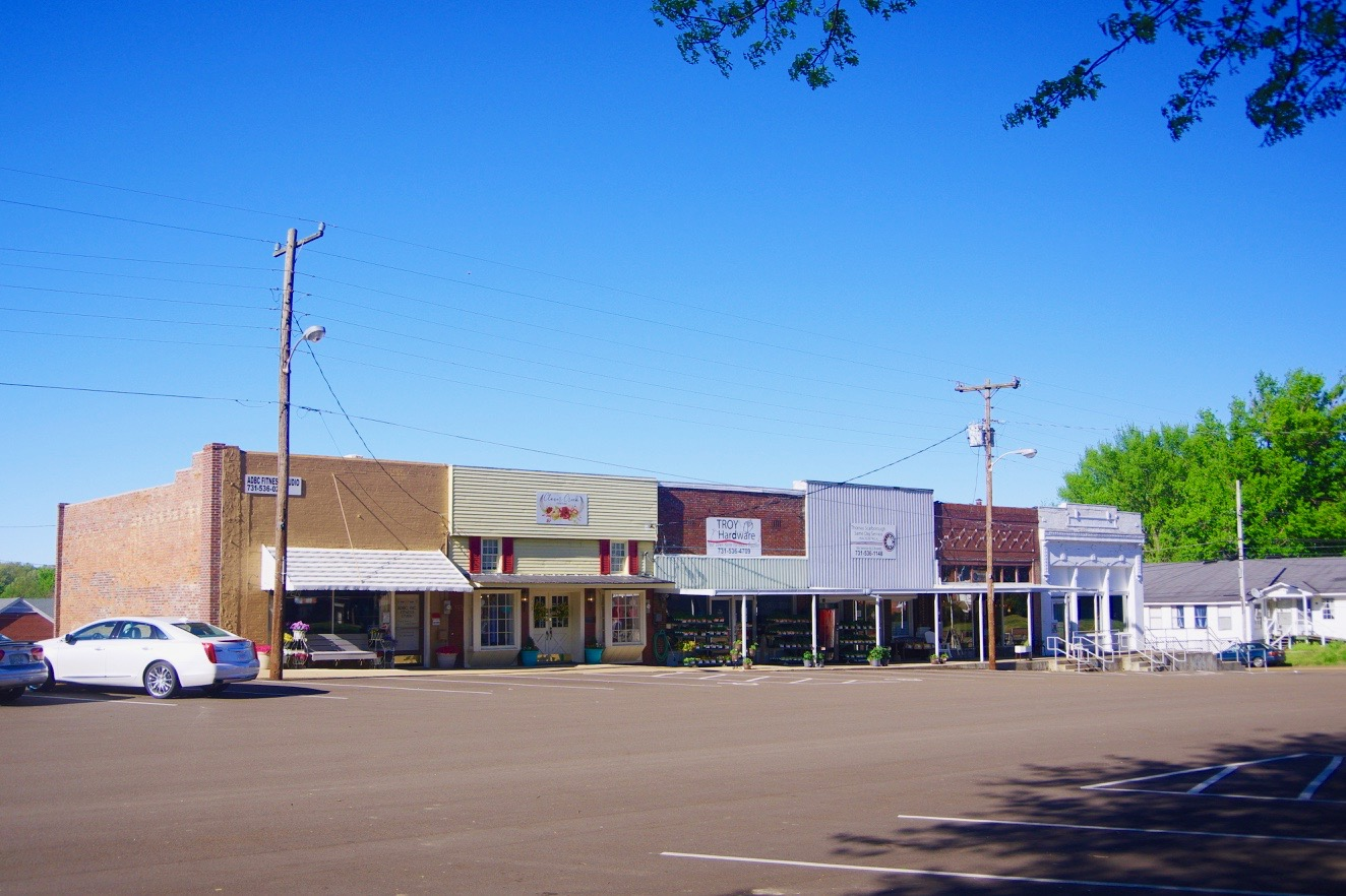 Businesses along Westbrook Street in Troy, Tennessee, United States.